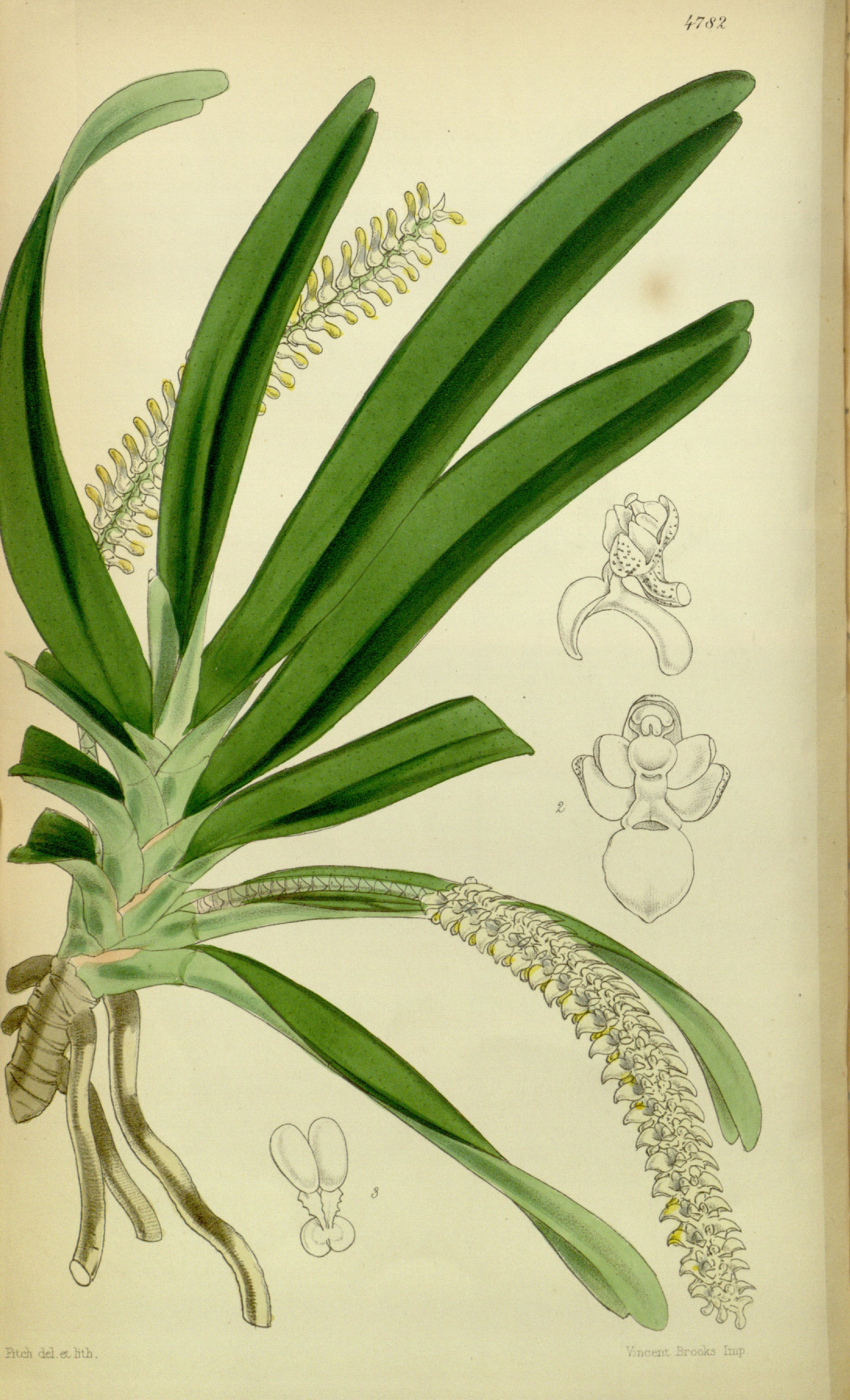 Illustration of Listrostachys pertusa (as syn. Angraecum pertusum)